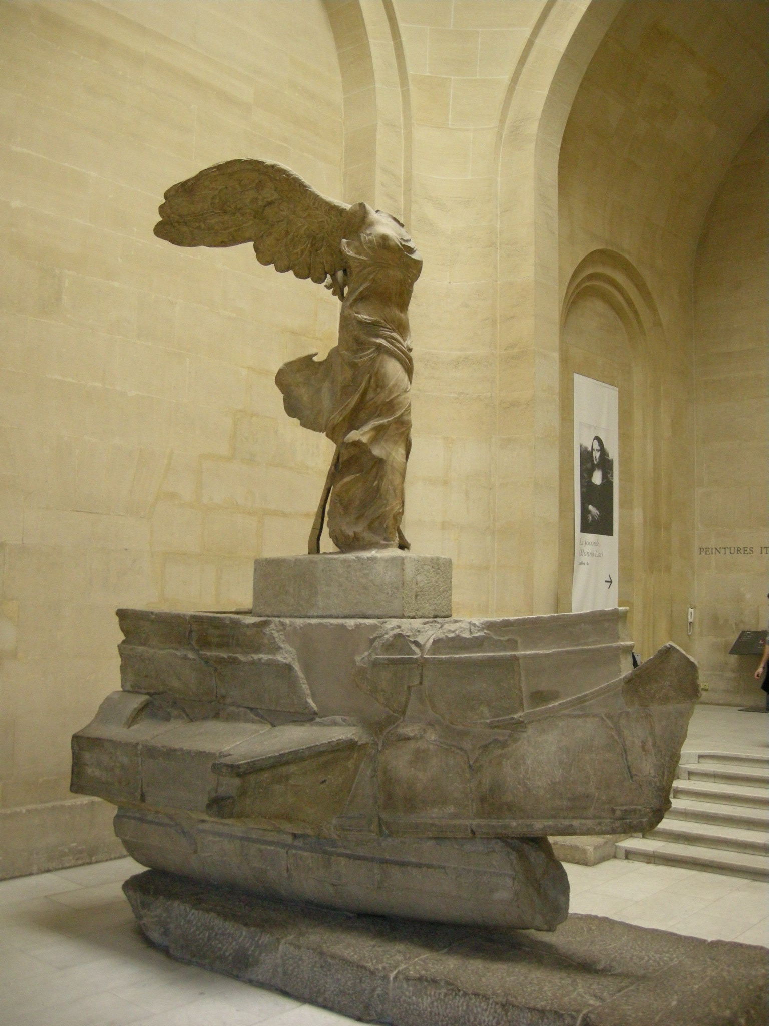 The so-called Nike of Samothrace, standing atop the prow of an Hellenistic oared warship, most probably a trihemiolia.